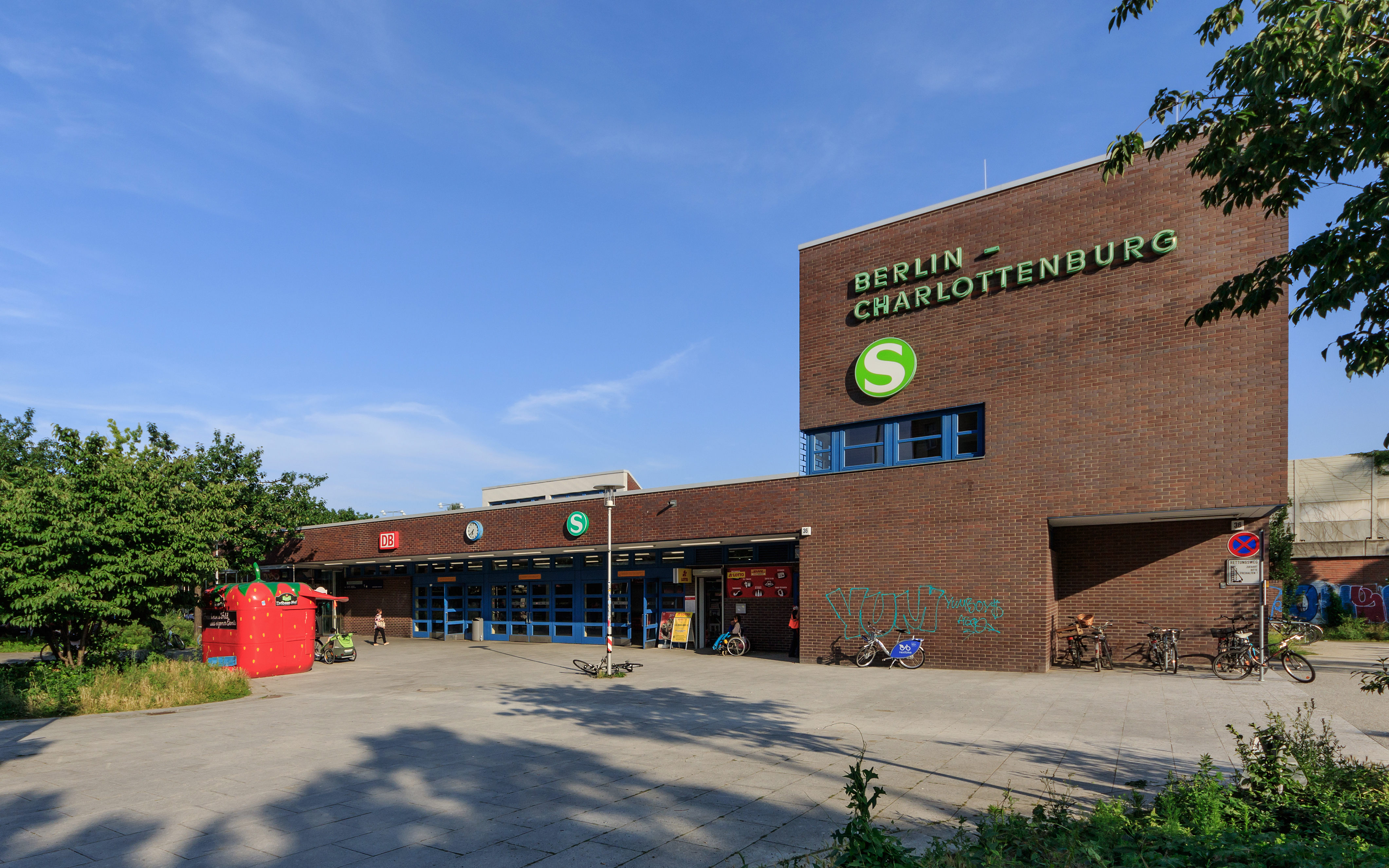 Charlottenburg railway station in Berlin (Germany)